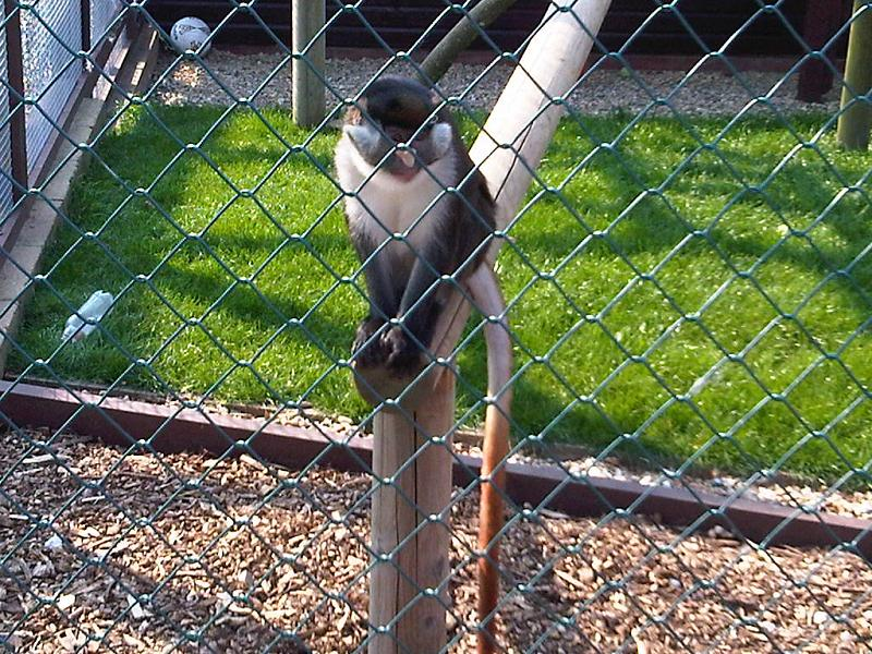 Red-tailed monkey, black-cheeked white-nosed monkey, red-tailed guenon, redtail monkey, or Schmidt's guenon (Cercopithecus ascanius) at Owl and Monkey Haven in Isle of Wight, England.